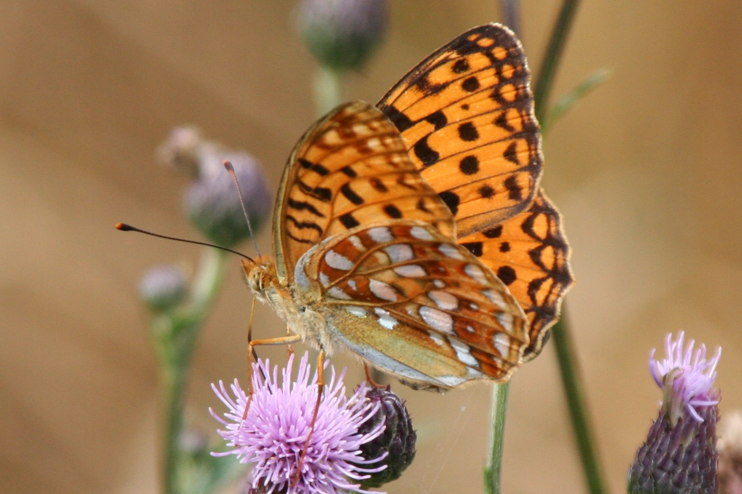 A High Brown Fritillary butterfly (Argynnis adippe), photographed in Wertheim-Bronnbach